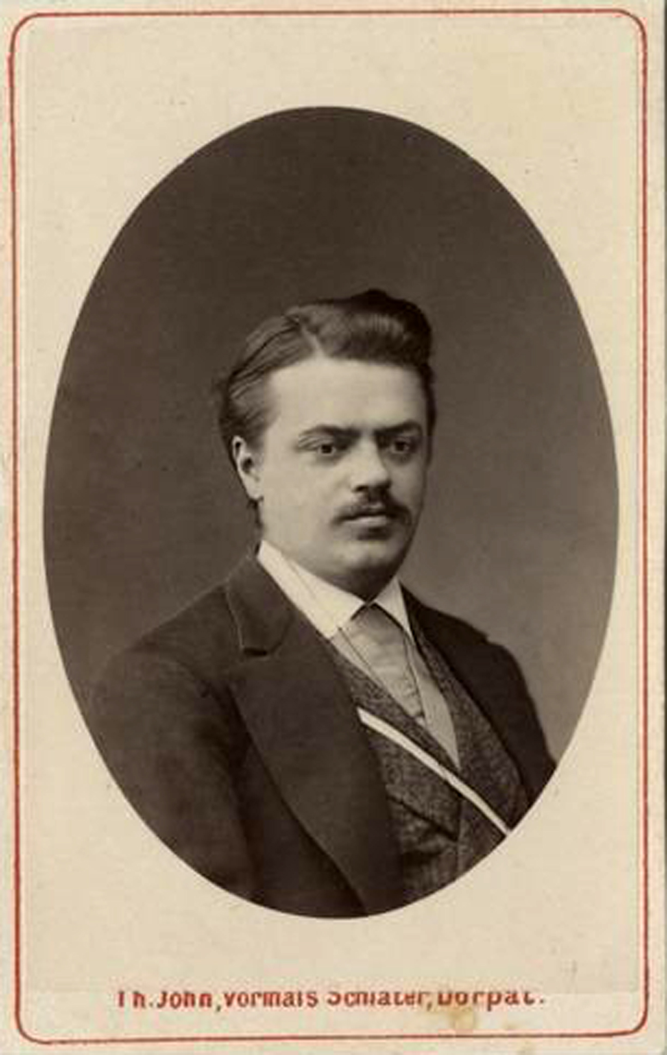 Julius Richard Alexander Peters professor of Pediatrics